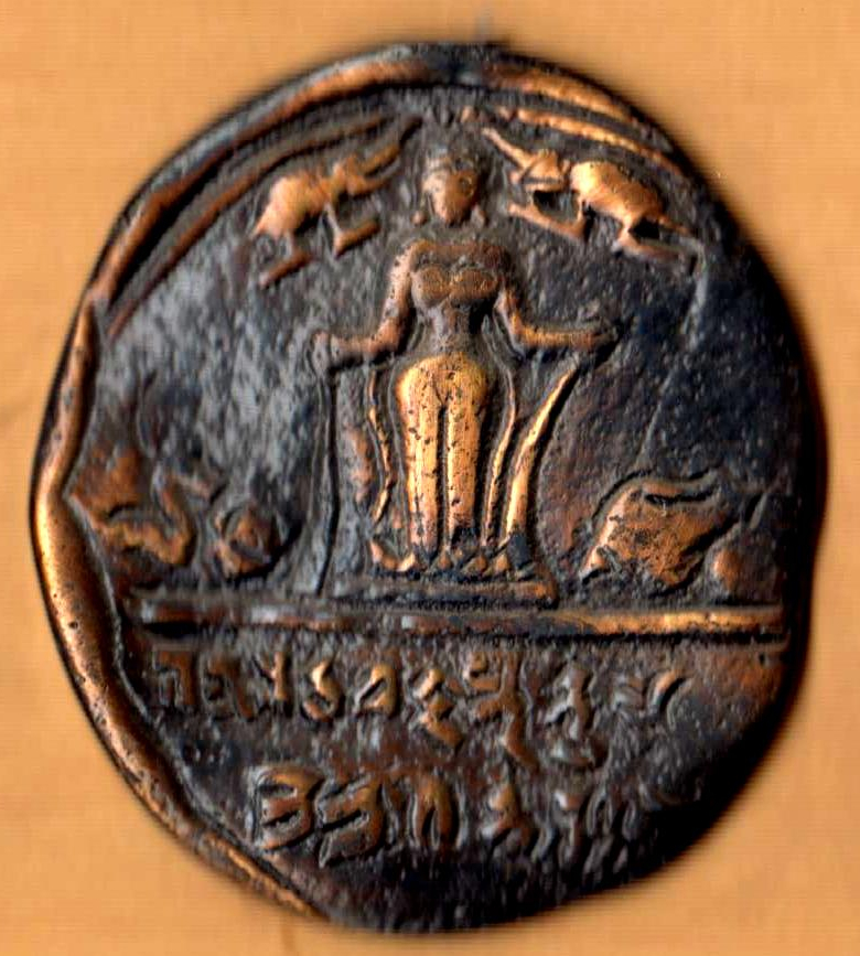 Copy of the seal excavated from Kundpur, Vaishali. The Brahmi letters on the seal means: Kundpur was in Vaishali. Prince Vardhaman (Mahavira) used this seal after the Judgement.